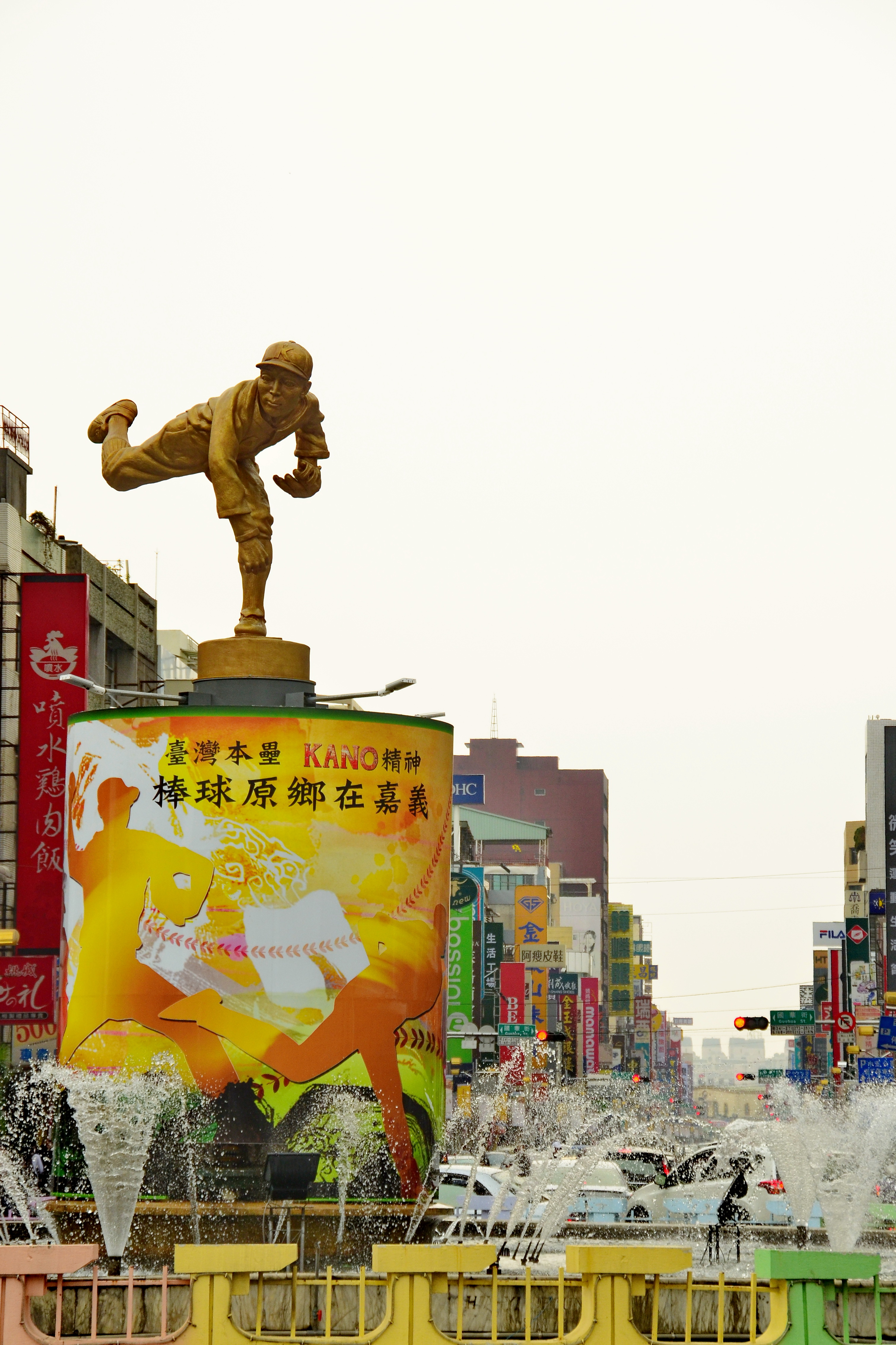 A statue of former Kano pitcher Wu Ming-chieh at the Central Fountain of Chiayi City, Taiwan.